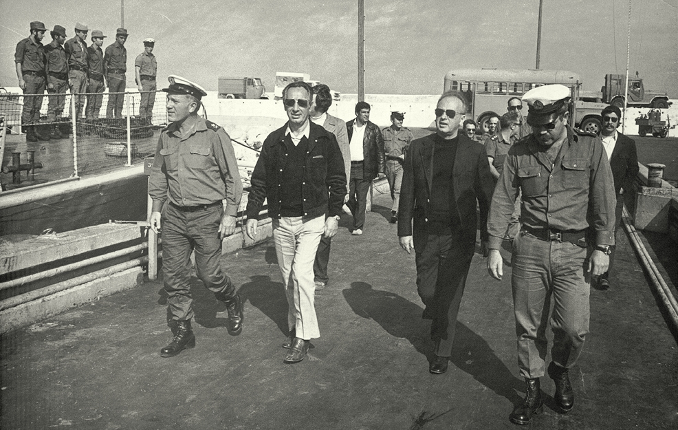 PM Rabin and Defence minister Peres visit Israeli Navy Missle Bpat Flotila, 1975